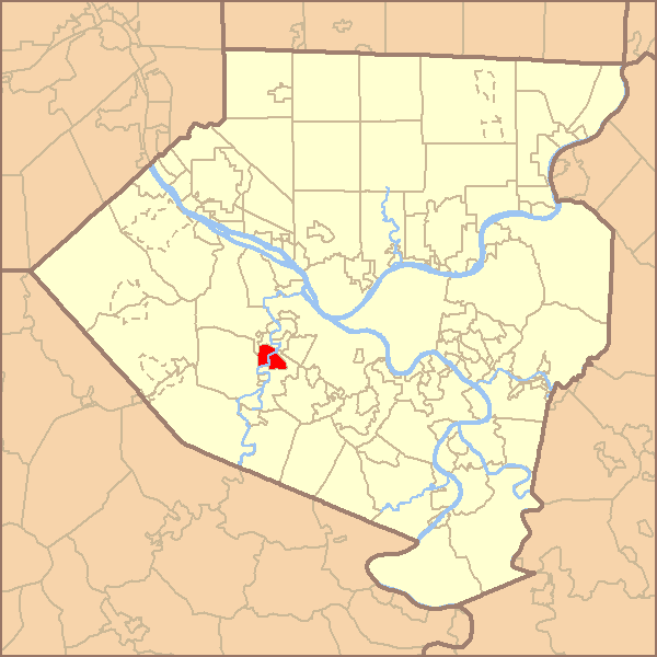 Map highlighting the municipality within Allegheny County, Pennsylvania.